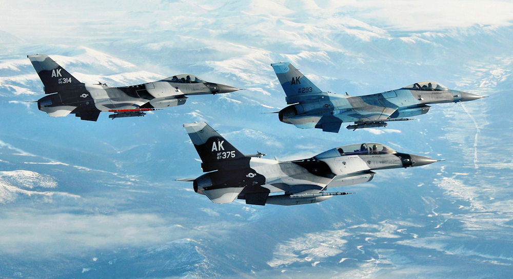 F-16 Aggressor, 354th Operations Group, Elelson AFB, Alaska